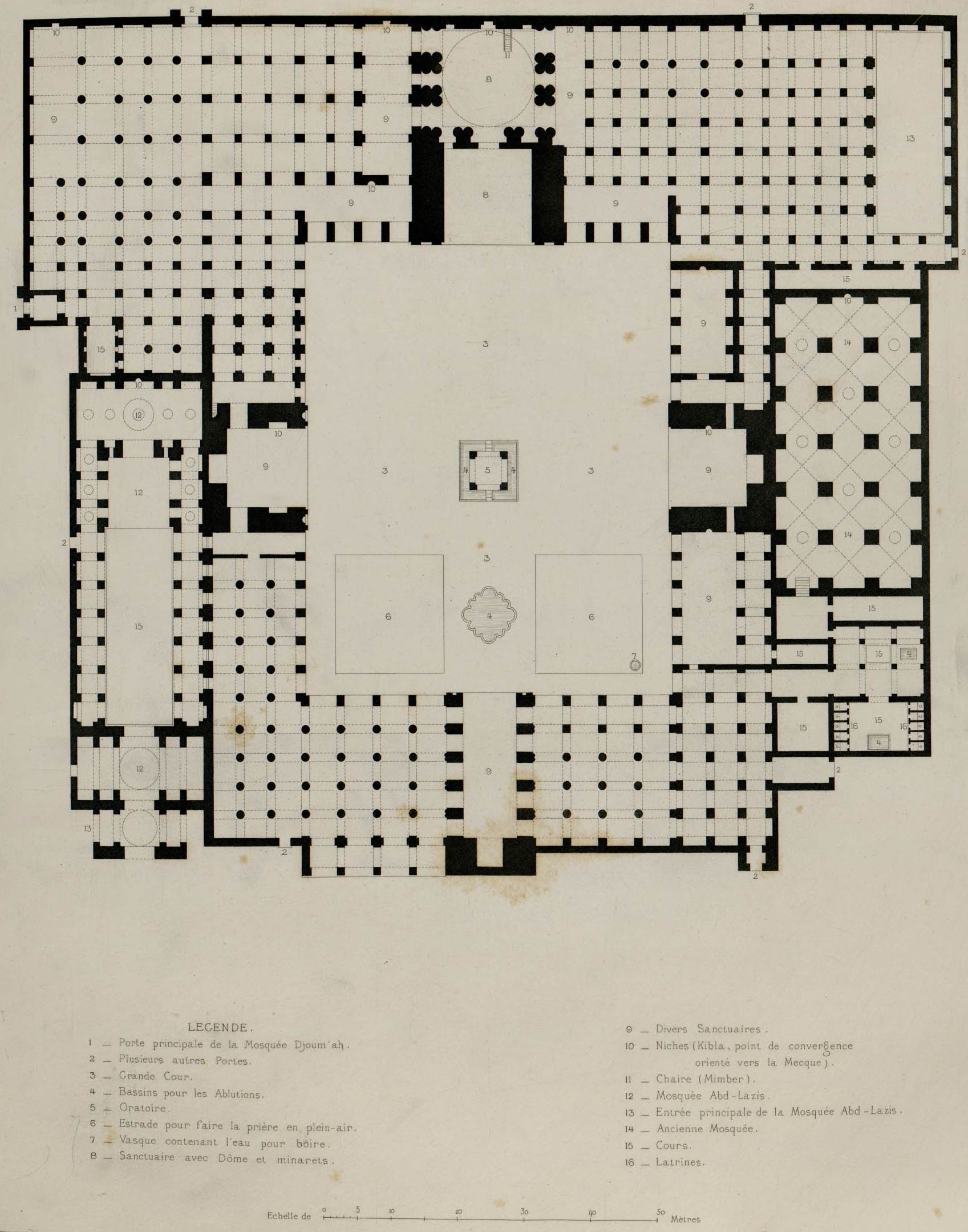 Plan of the Jama mosque